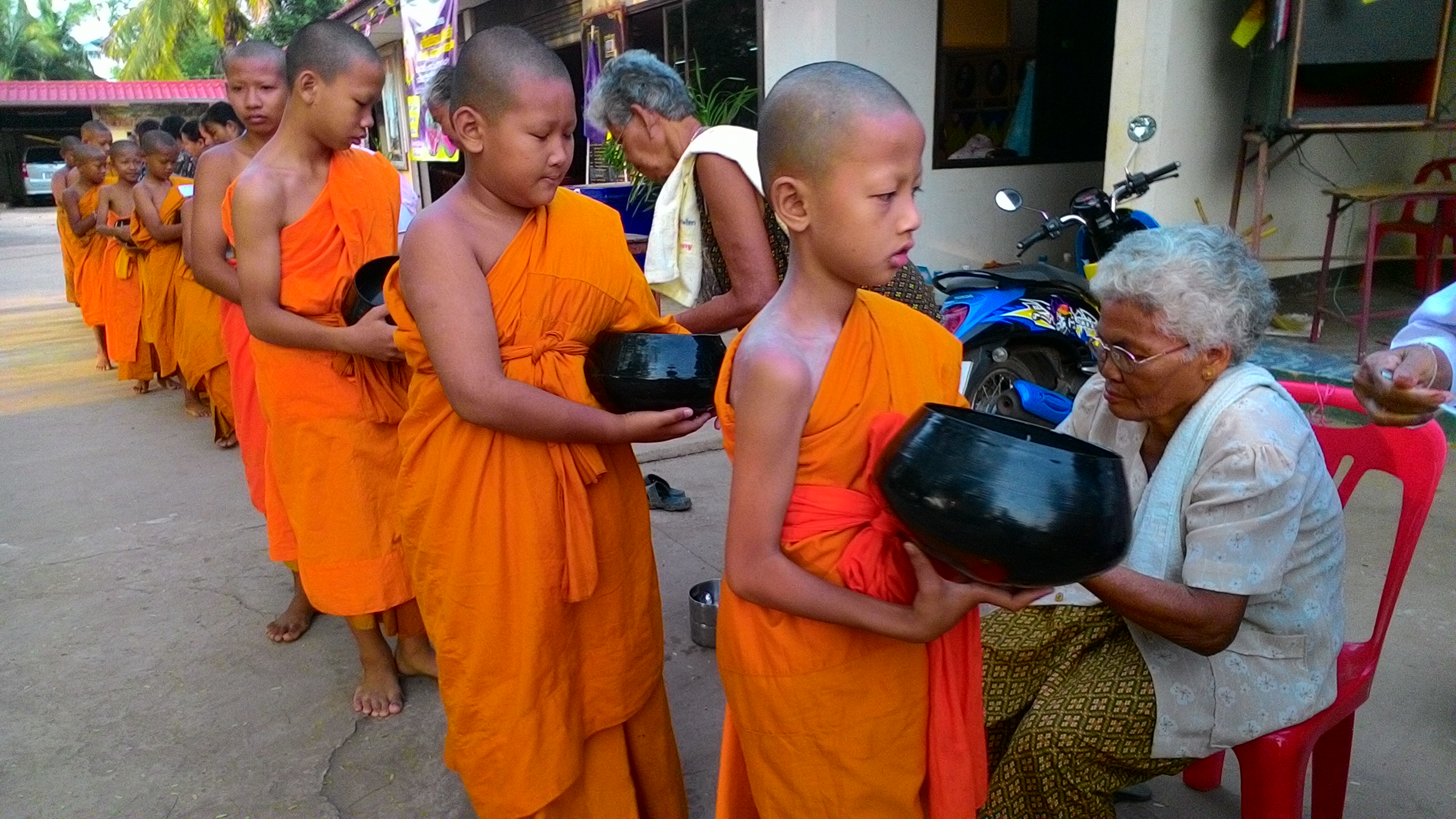 Buddhist child monks alms bowls of Wat Trai Sirimongkhon,Ming Bun Mak District,Nakhon Ratchasima province,northeastern Thailand